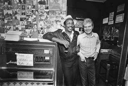 Eli's Mile High Club, Oakland, CA 1979